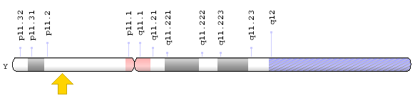 Cytogenetic Location of SRY gene: Yp11.2, which is the short (p) arm of the Y chromosome at position 11.2 Molecular Location: base pairs 2,786,855 to 2,787,741 on the Y chromosome (Homo sapiens Annotation Release 108, GRCh38.p7) (NCBI)